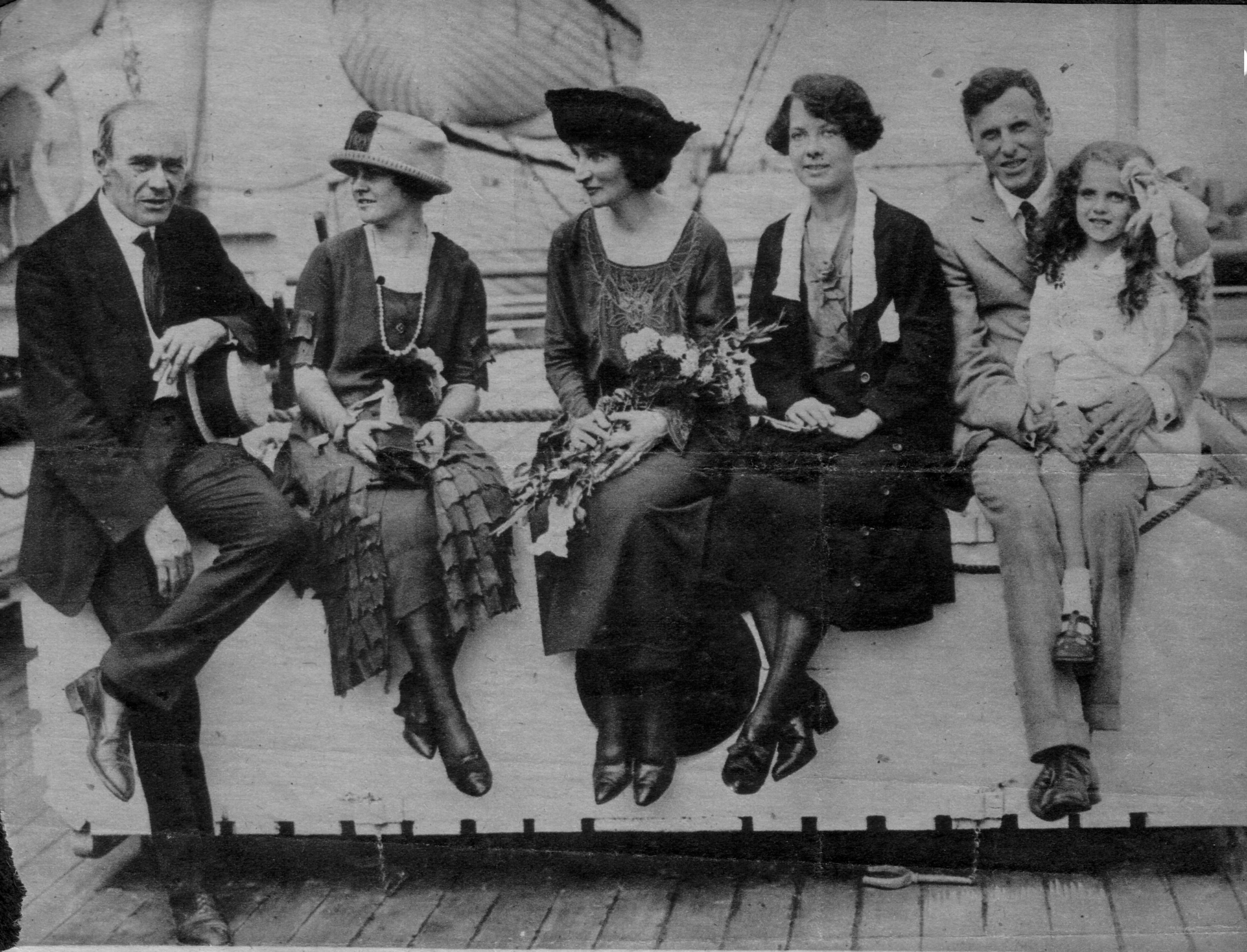 Alice Sheldon with her parents and their friends on the first trip to Africa (Alice is with her father and his mother is in the middle)